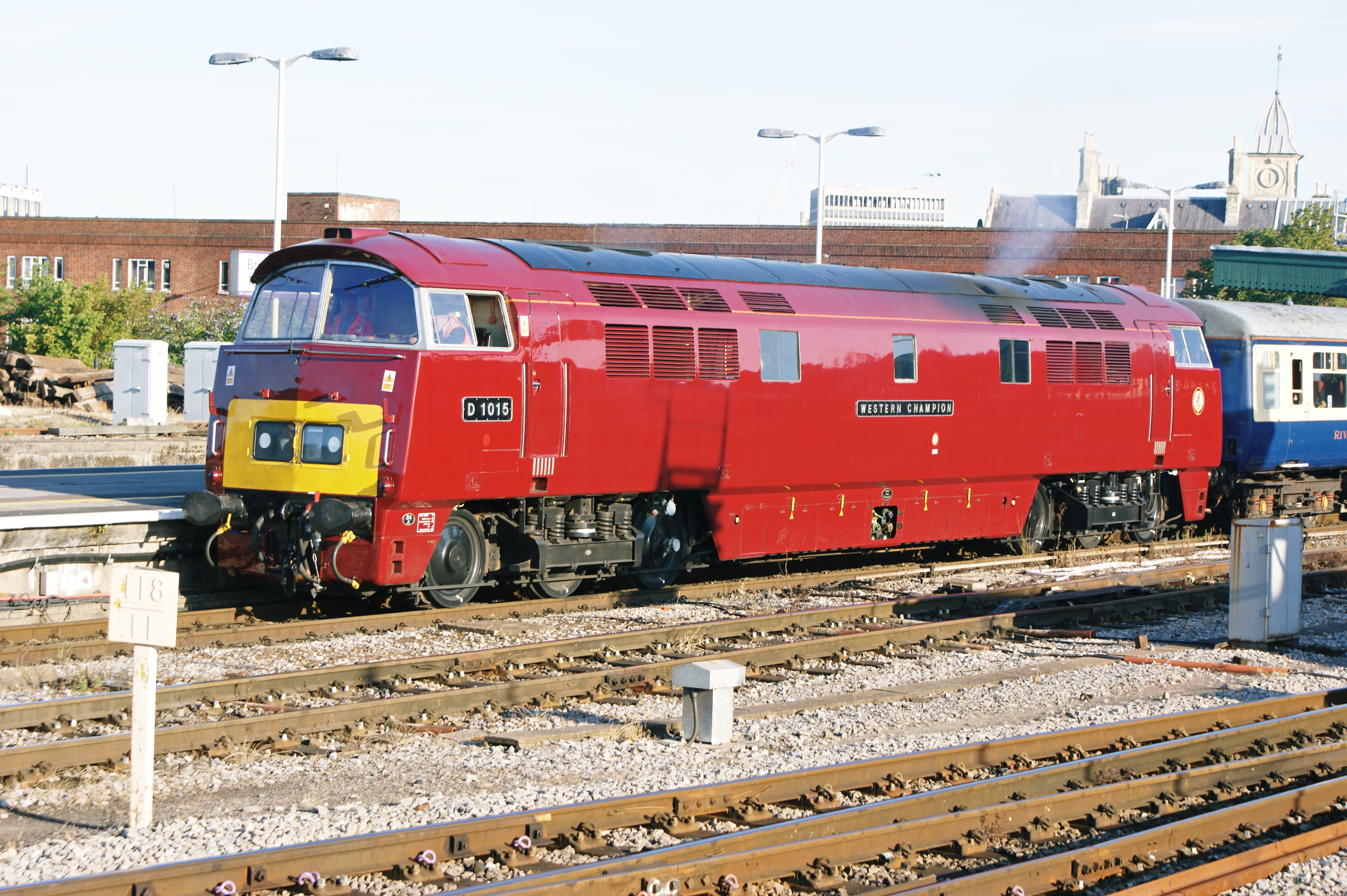 BR Class 52 2,700 hp C-C No.D1015 "Western Champion" at Bristol Temple Meads on a "Festival of the Sea" excursion from Salisbury to Liverpool, 7/08. What an imposing locomotive. The Western Region of British Railways still had a very strong GWR tradition and did things as differently as their predecessor did! Whearas all the other BR regions went for electric transmission for their diesel locomotives and adopted standard designs, the WR went for hydraulic and were highly influenced by German diesel hydraulic designs.